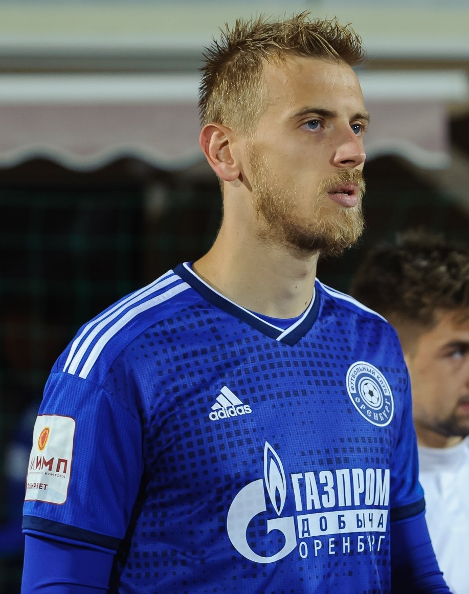 Uroš Radaković with FC Orenburg in a game against FC Chertanovo Moscow.